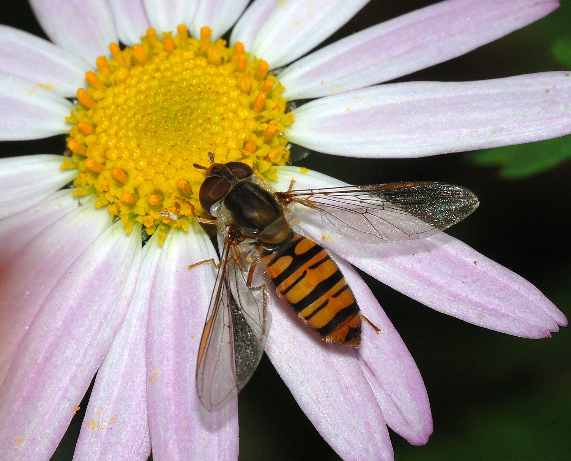 A small hoverfly in the sun (female Episyrphus balteatus) Camera: Nikon D80, Tokina 100mm Macro Exposure: manual, 1/160s F/22, ISO 100